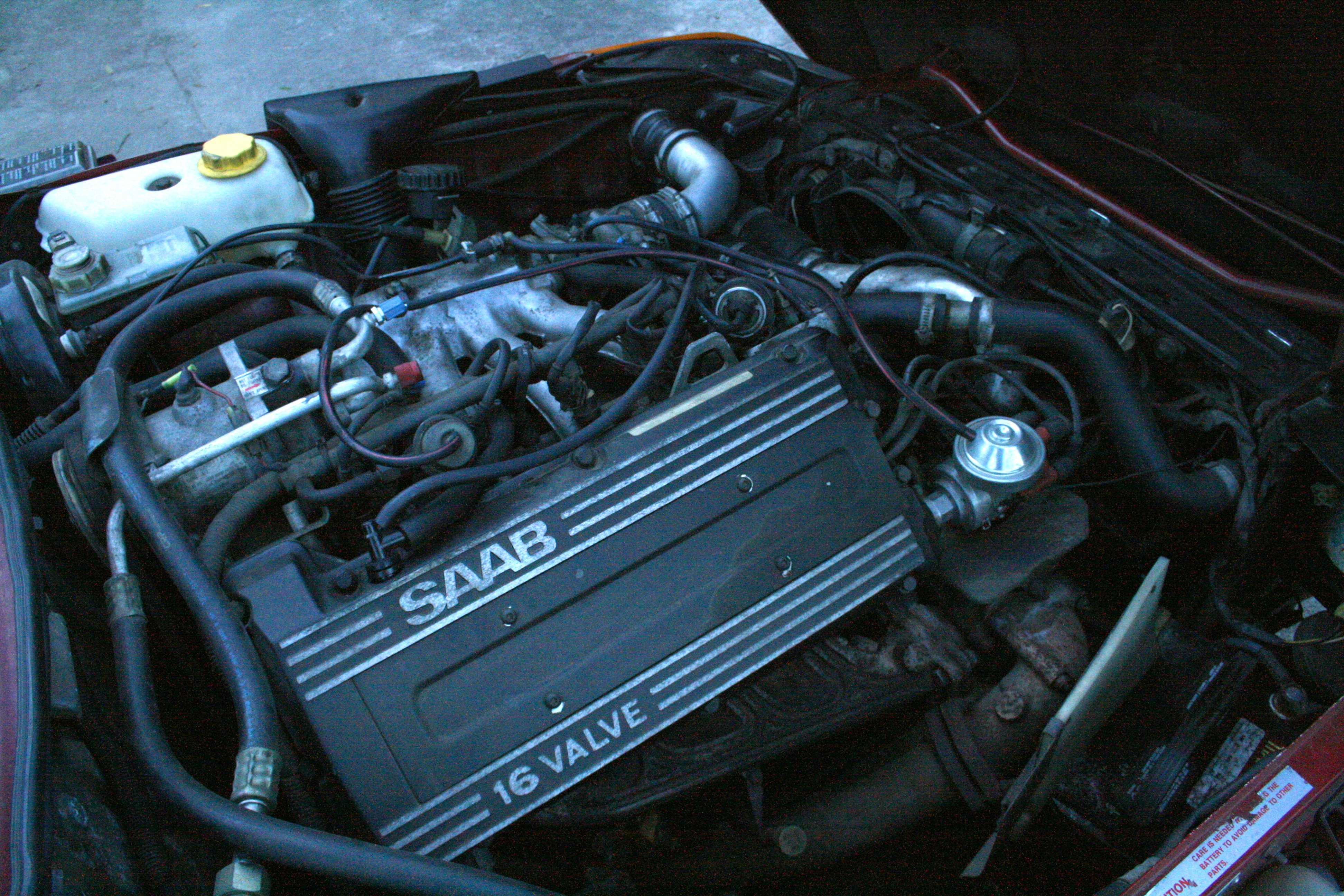 The engine compartment of a 1989 Saab 900 Turbo convertible.